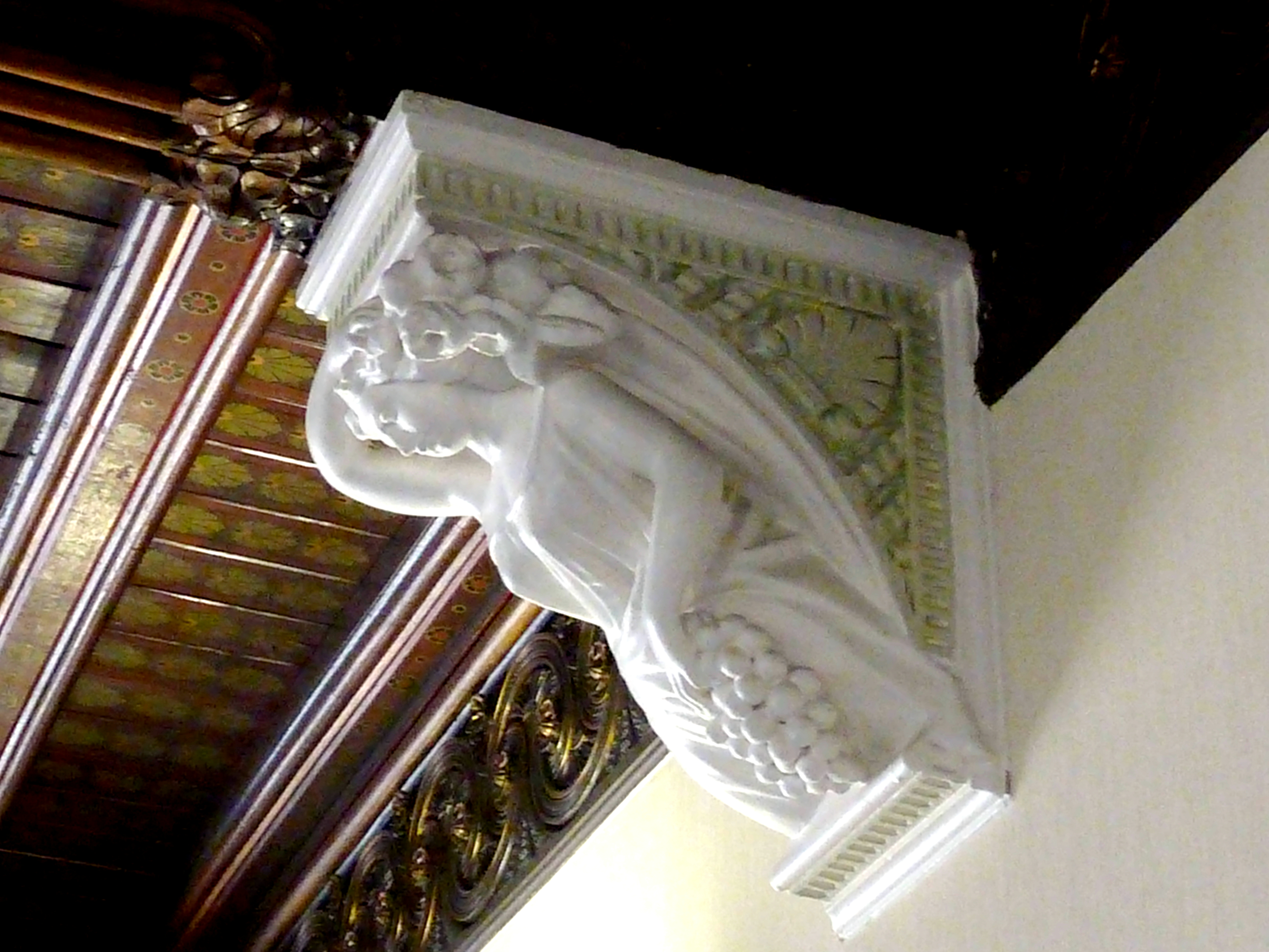 Interior of Spring Hall, now known as Spring Hall Mansions, off Huddersfield Road, Halifax, West Yorkshire. Showing carved wood or plaster corbel on first-floor ceiling of grand staircase. It features a goddess with roses and grapes, and the face is likely to be a portrait. Note the faded gilding and stencil-painting on the wooden ceiling. This mansion was a rebuild of a 17th century house, and designed in 1871 by William Swinden Barber for Tom Holdsworth. It is owned by Kirklees Council and it houses Calderdale Register Office. Note: Most of the interior of the building is not accessible to the public. Each interior image by this uploader was taken with kind permission of Council staff.